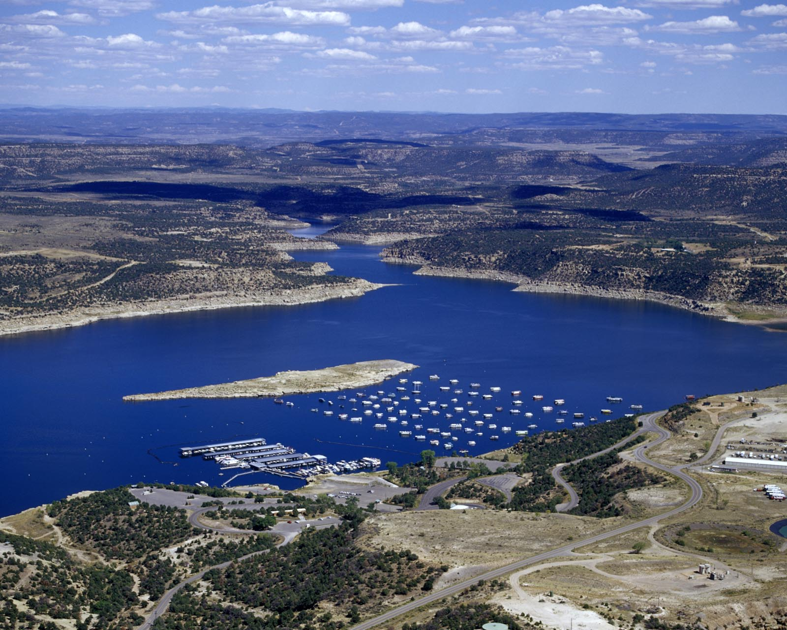 Aerial view of Navajo Lake, New Mexico